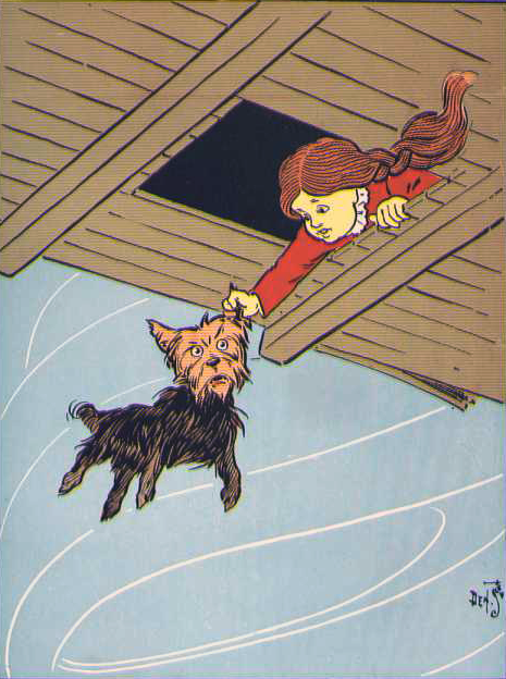 Caption: She caught Toto by the ear. An illustration by W. W. Denslow from The Wonderful Wizard of Oz, also known as The Wizard of Oz, a 1900 children's novel by L. Frank Baum.